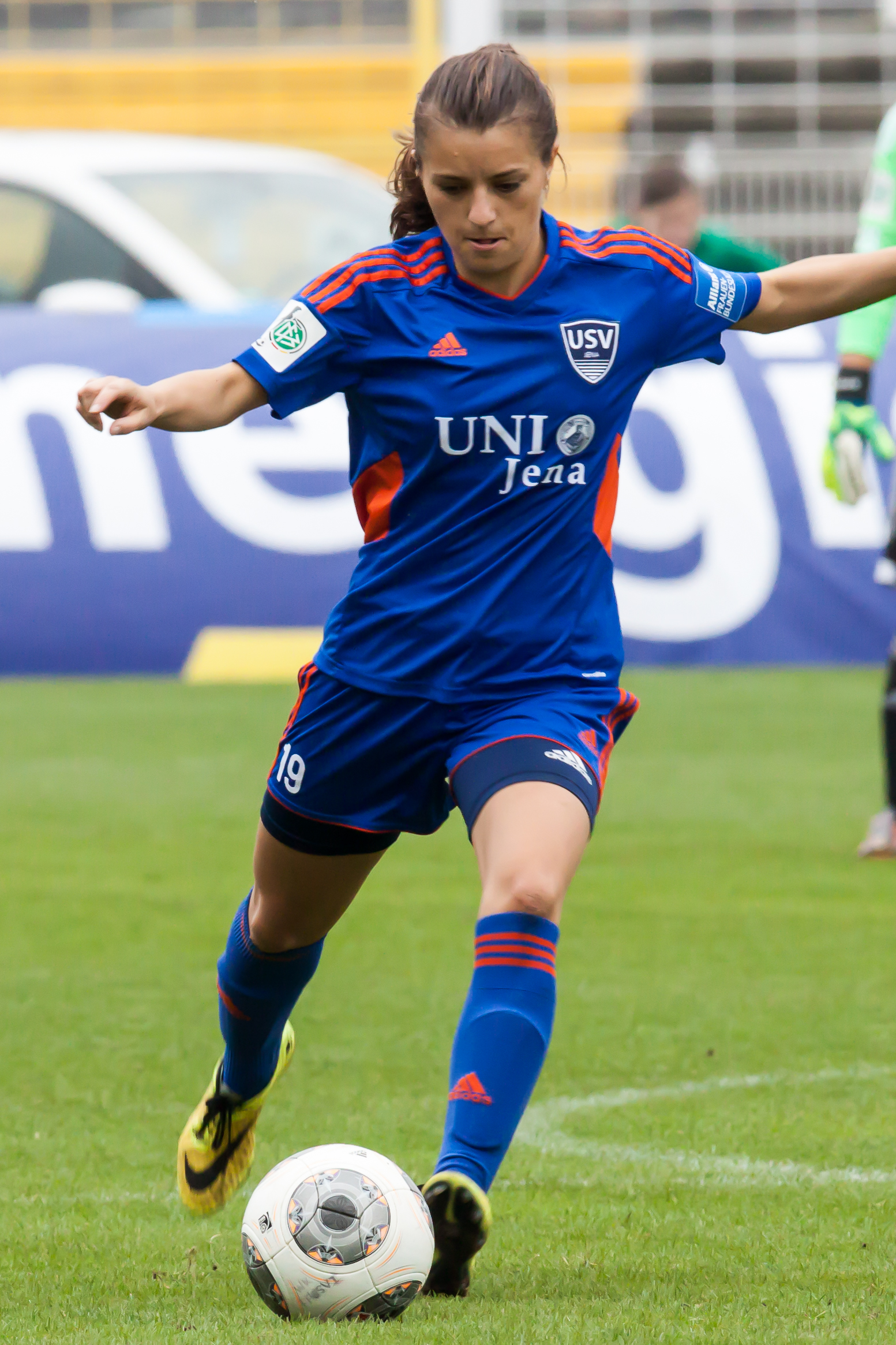 German Women Bundesliga soccer game: FF USV Jena vs. TSG 1899 Hoffenheim, 2014-10-11, at Ernst-Abbe-Sportfeld Jena.